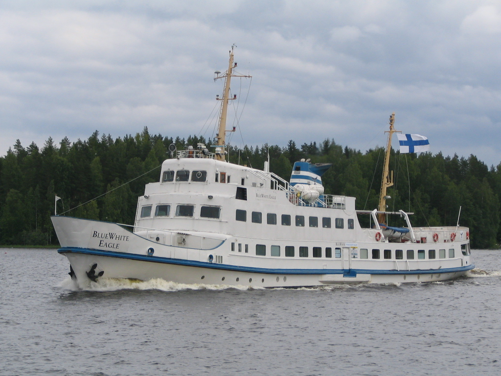 M/S BlueWhite Eagle on Lake Haukivesi, Finland